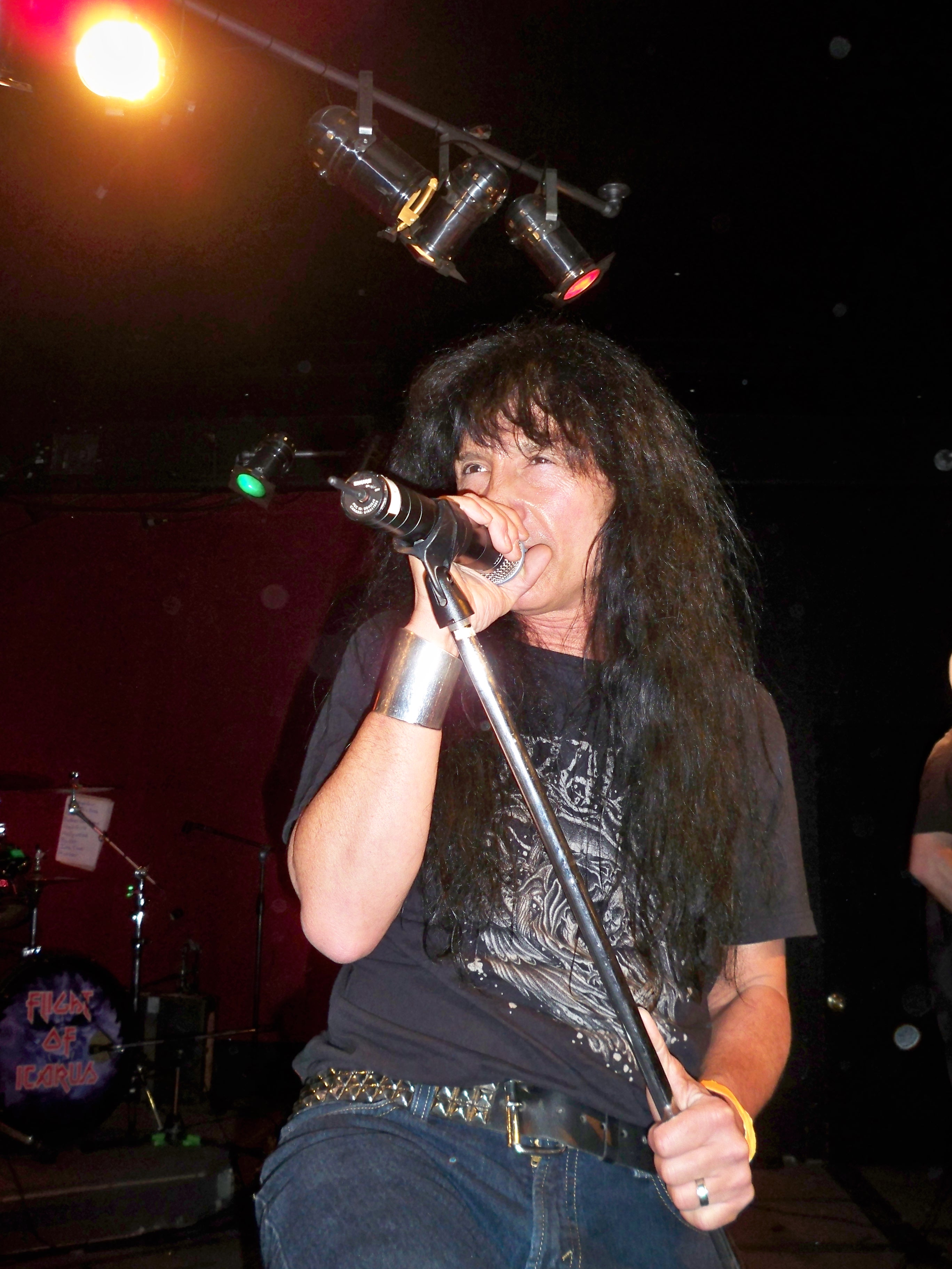 Joey Belladonna performs in Rochester, NY.